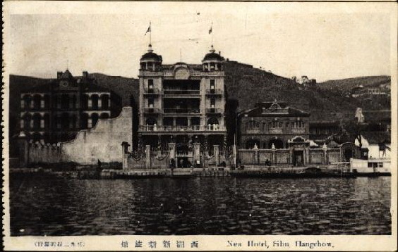 Postcard of West Lake